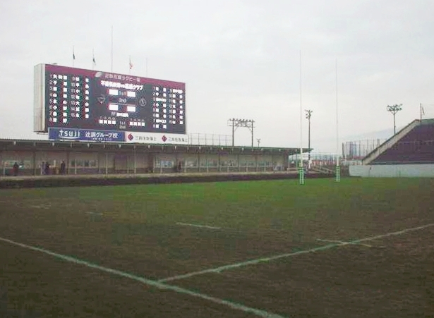 Higashi Osaka Hanazono rugby stadium on a very damp day, photo taken by the uploader.